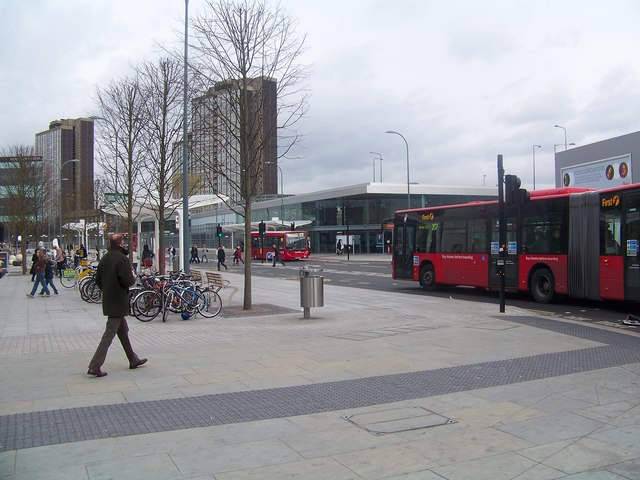 Shepherds Bush Bus Station.